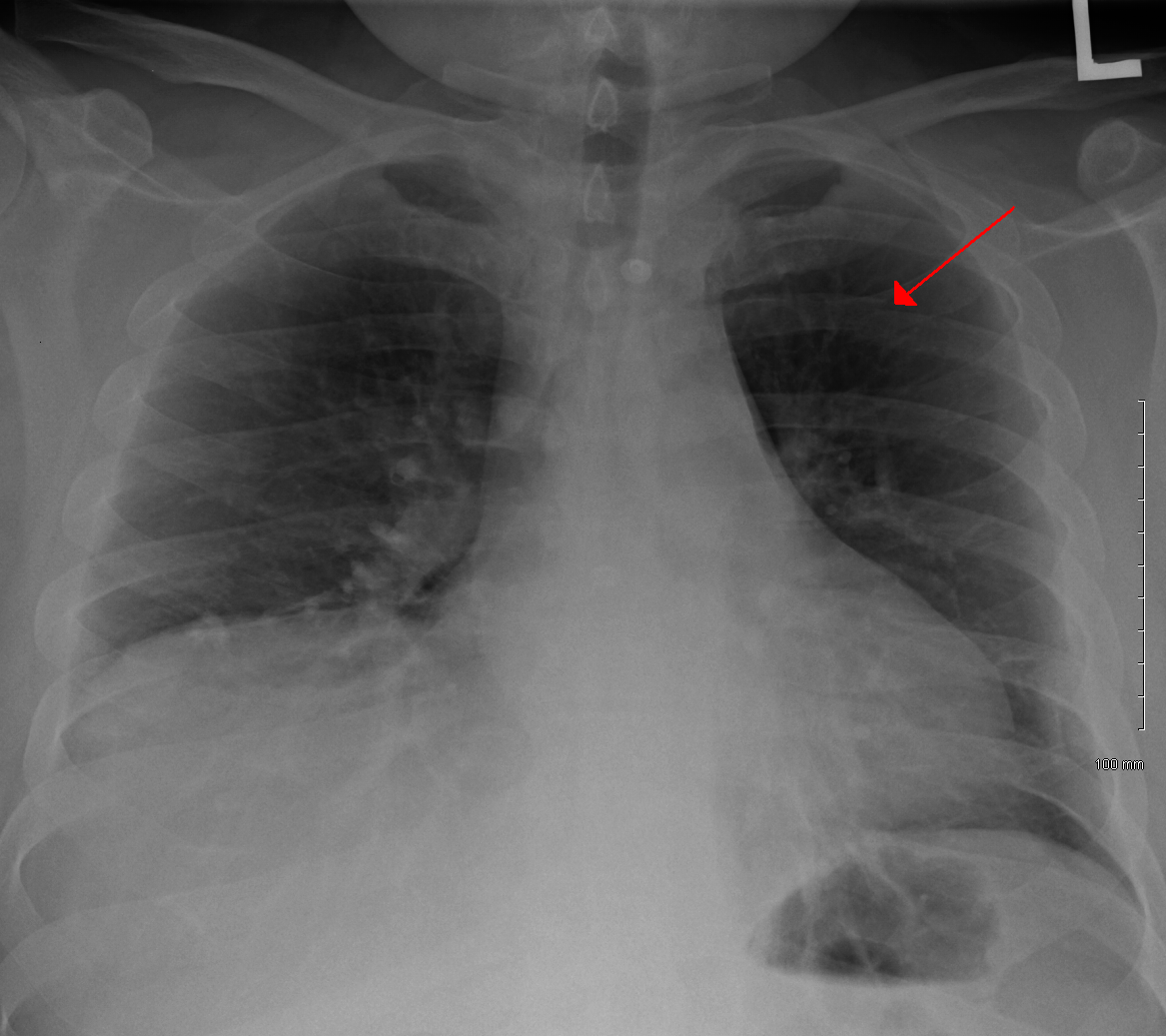 Rib fracture as seen on CXR